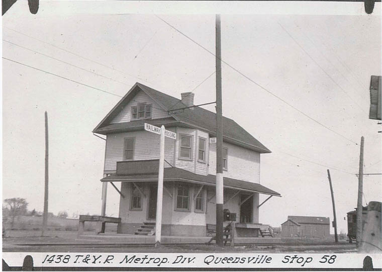 View of the Queensville Radial station, circa 1923.